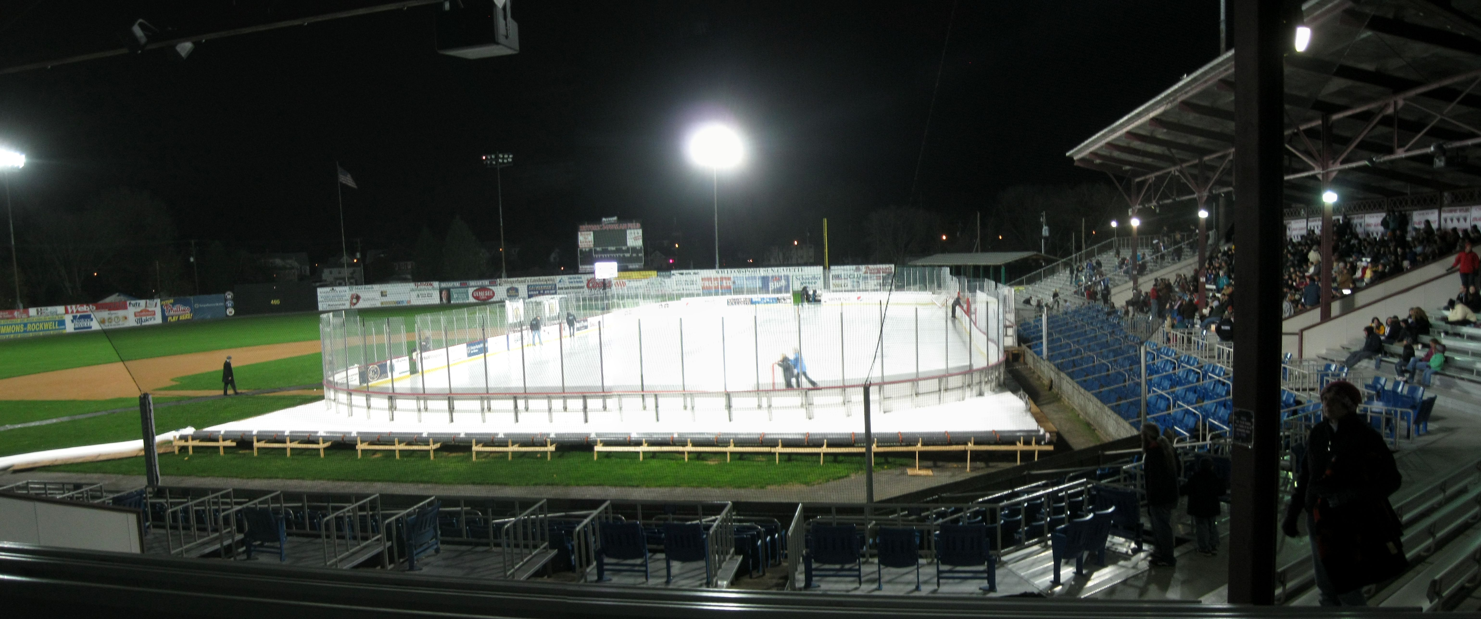 Airmen Pond ice hockey rink for the Williamsport Outlaws playing the Dayton Demonz in a Federal Hockey League game at Bowman Field stadium in Williamsport, Pennsylvania, USA